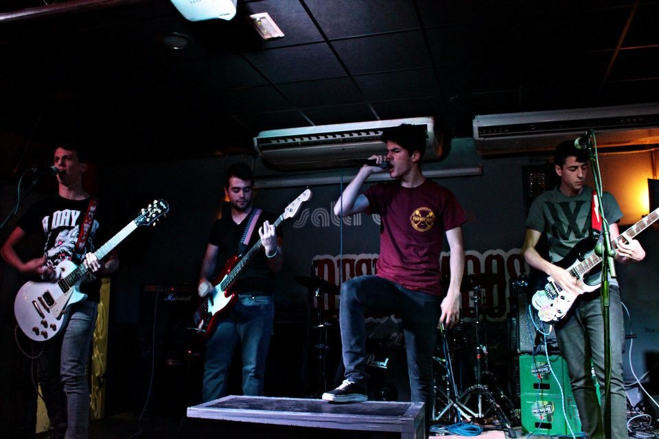 BMP Sala B